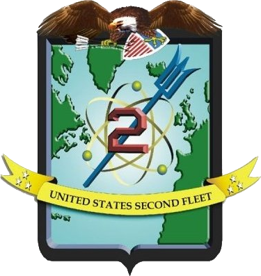 U.S. Second Fleet crest